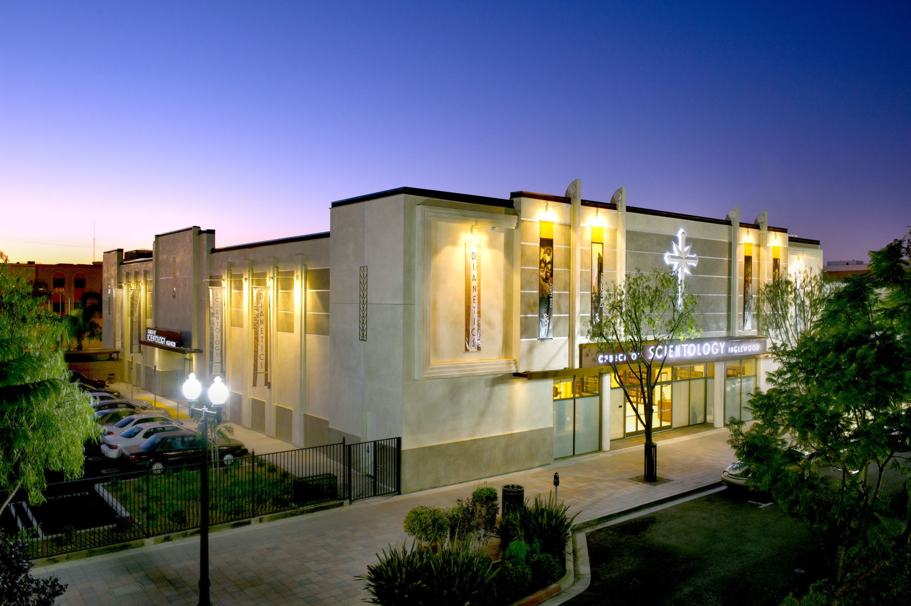 The new Church of Scientology of Inglewood was opened 5 November 2011 in the heart of downtown at 315 South Market Street. The facility reflects the growth of a significant Scientology congregation within the area.